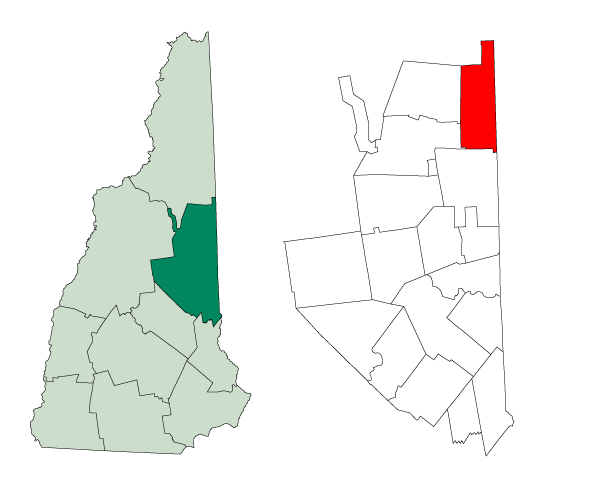 Created from Boundary/Border Outline Files of the Libre Map Project which held a BY-SA creative commons license. Data origionally from 2000 US Census boundary data.